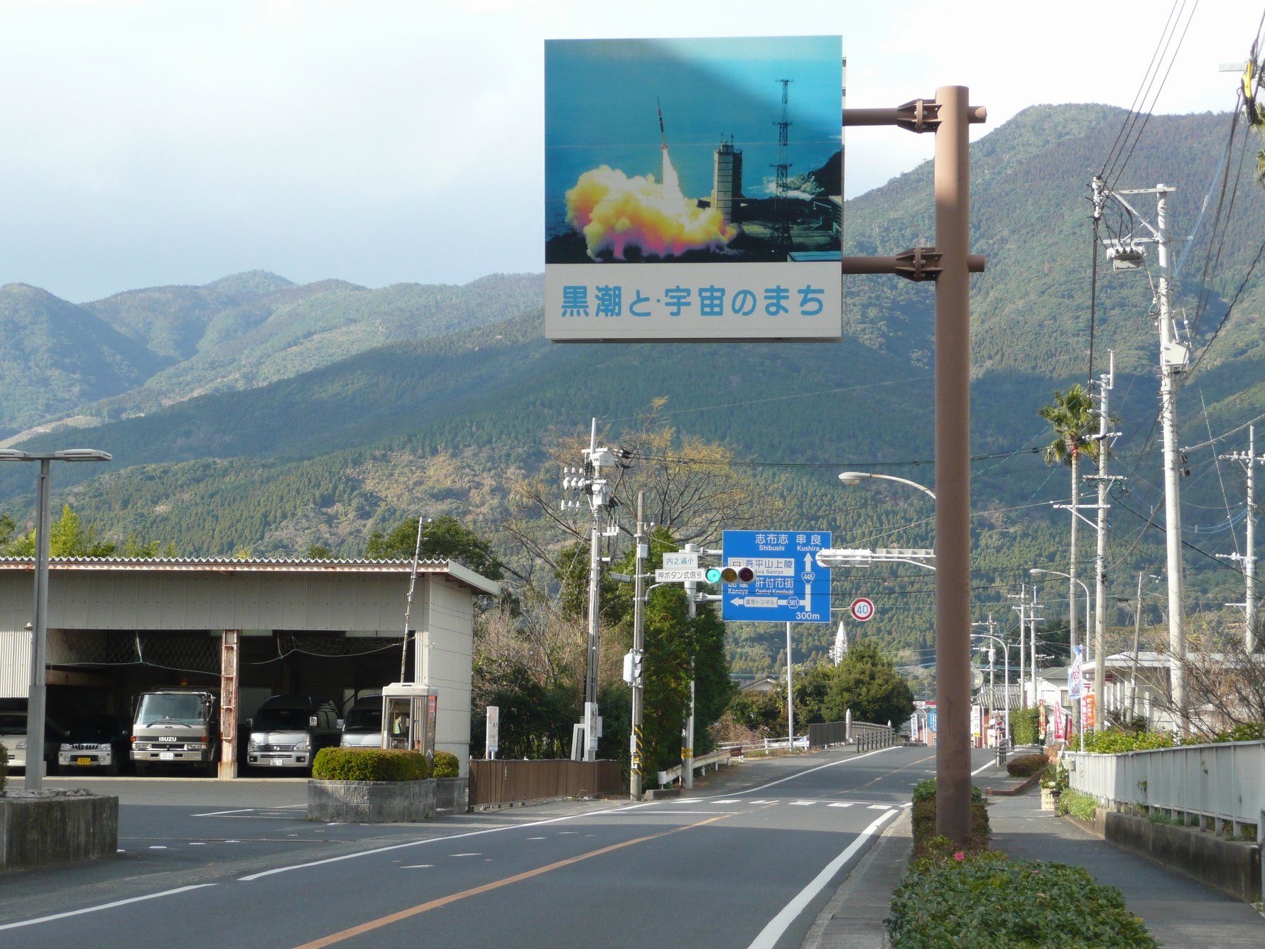 Route 448 (Kimotsuki Town, Kagoshima, Japan)